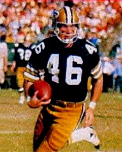 New Orleans Saints wide receiver Danny Abramowicz pictured running the ball down the field.